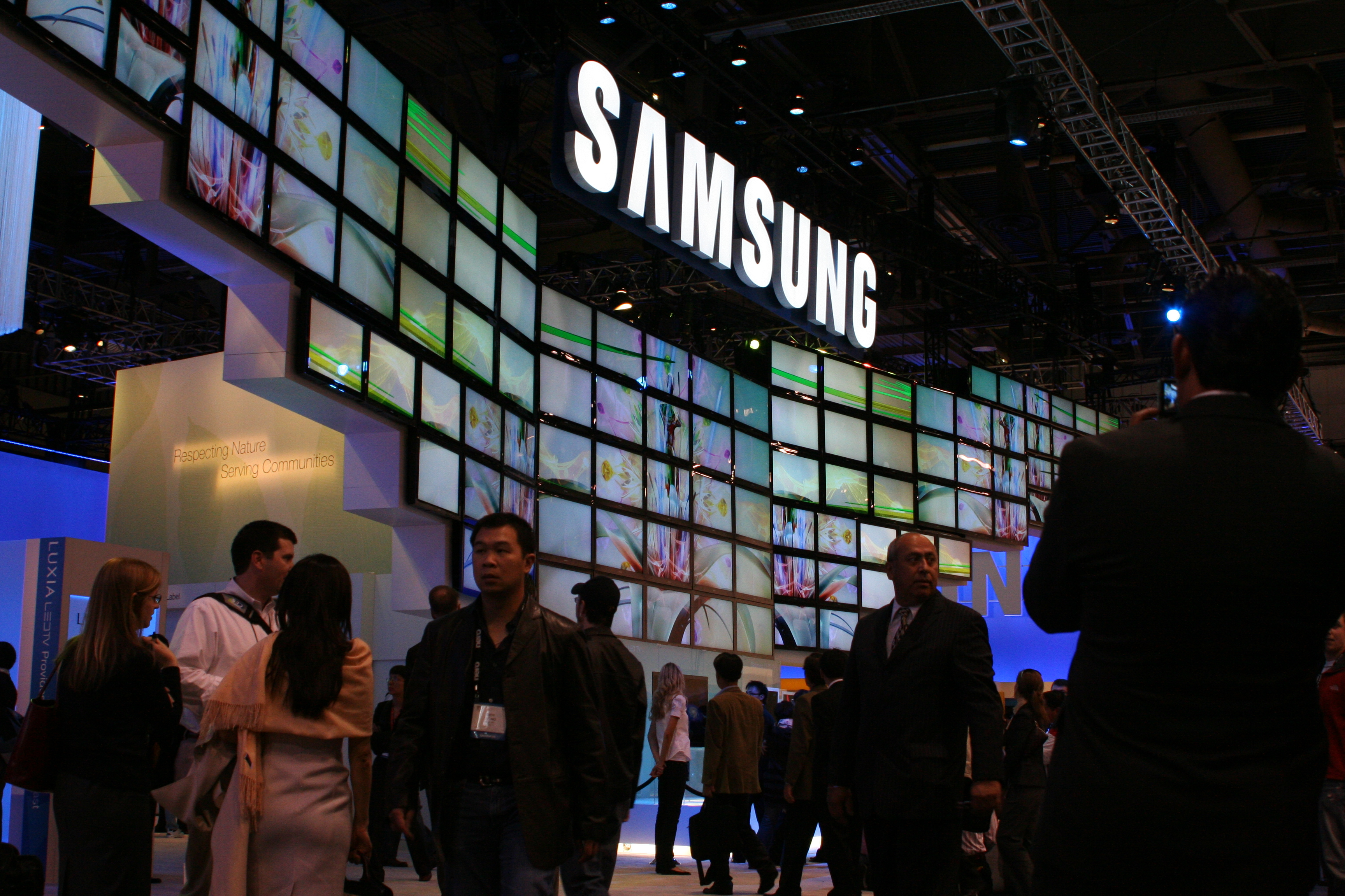 The Samsung booth display at CES 2009